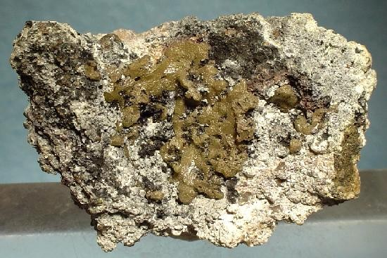 Chlorargyrite (Var.: Bromian Chlorargyrite) Locality: Broken Hill, Yancowinna County, New South Wales, Australia (Locality at ) Size: 4.6 x 3.1 x 2.9 cm. An OUTSTANDING, old-time specimen of discrete, isolated and lustrous, olive-green bromian chlorargyrite crystals richly lining a vug in contrasting gossan matrix from the famous Broken Hill Mine of Australia. This is a rare member of the group of related silver chlorides from Broken Hill, and hard to obtain today in good crystals. This one is especially fine. Ex. George Elling Collection.